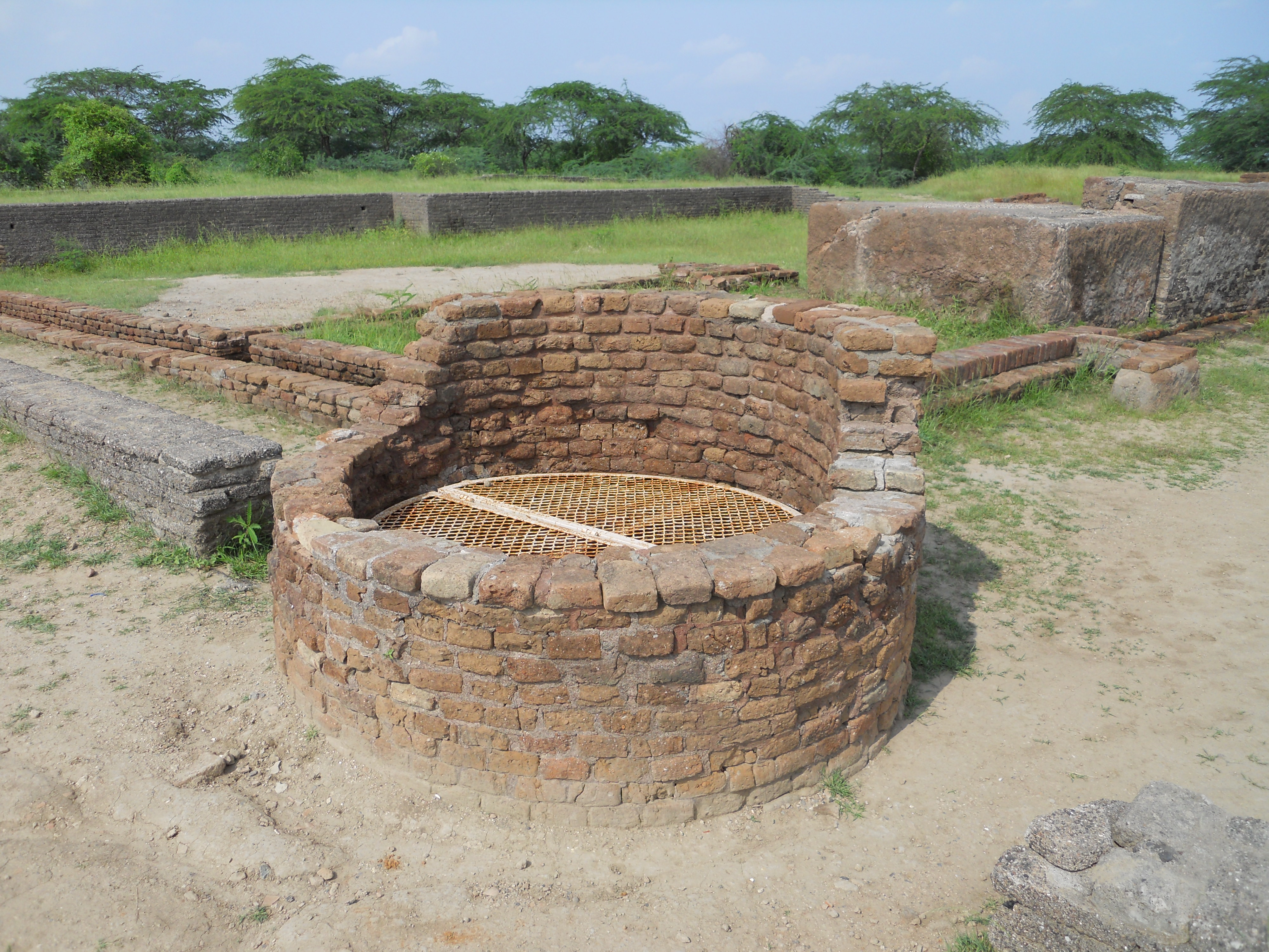 Ancient site at Lothal